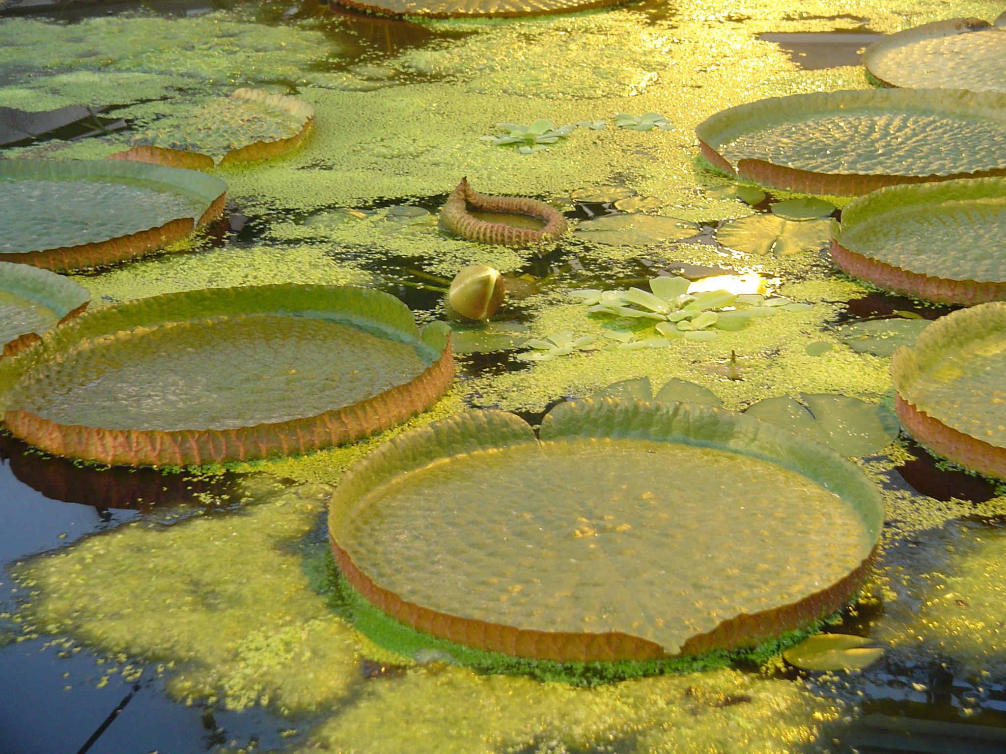 Victoria amazonica from botanic garden of Budapest. (Füvészkert)